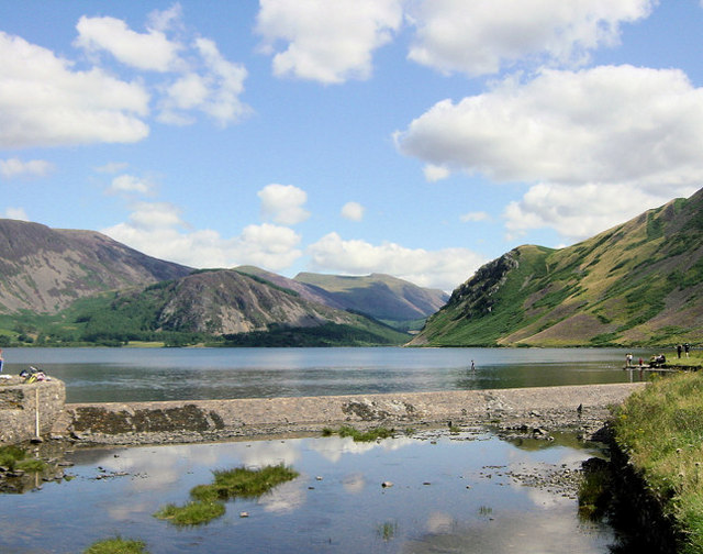 Ennerdale Water looking east. Ennerdale Water on a beautiful summer's day